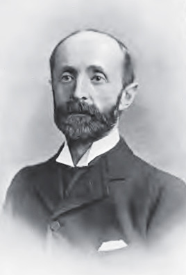 from China and the Gospel, Annual Report of the China Inland Mission, 1906